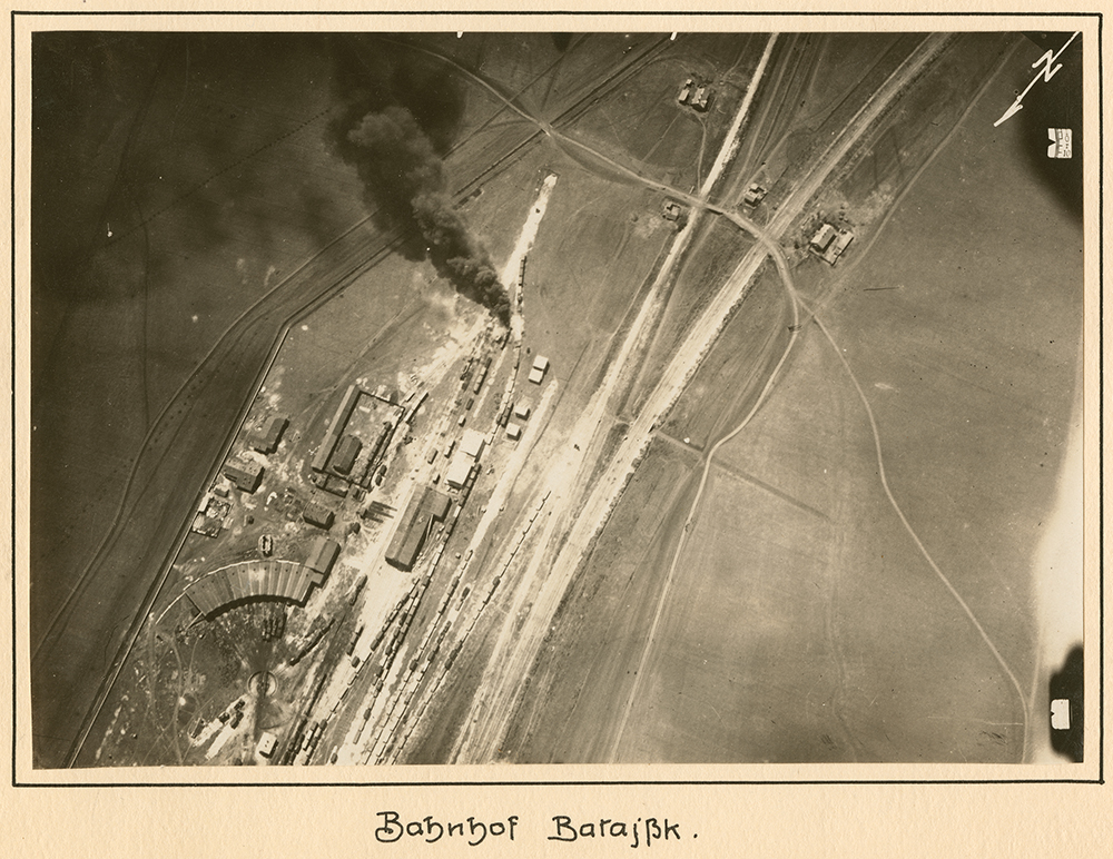 Title: Bahnhof Batajssk Alternative Title: Bataysk railway station Creator: Unknown Date: ca. May 1918 Part Of: Place: Bataysk, Rostov Oblast, Russia Physical Description: 1 photographic print: gelatin silver; 12 x 17 cm. on 34 x 44 cm. mount File: ag1982_0048x_29c_sm_opt.jpg Rights: Please cite DeGolyer Library, Southern Methodist University when using this file. A high-resolution version of this file may be obtained for a fee. For details see the web page. For other information, . Both the full portfolio and the 263 individual photographs, scanned at a higher resolution, are available. View the full portfolio: View the individual photographs: For more information and to view the image in high resolution, View the